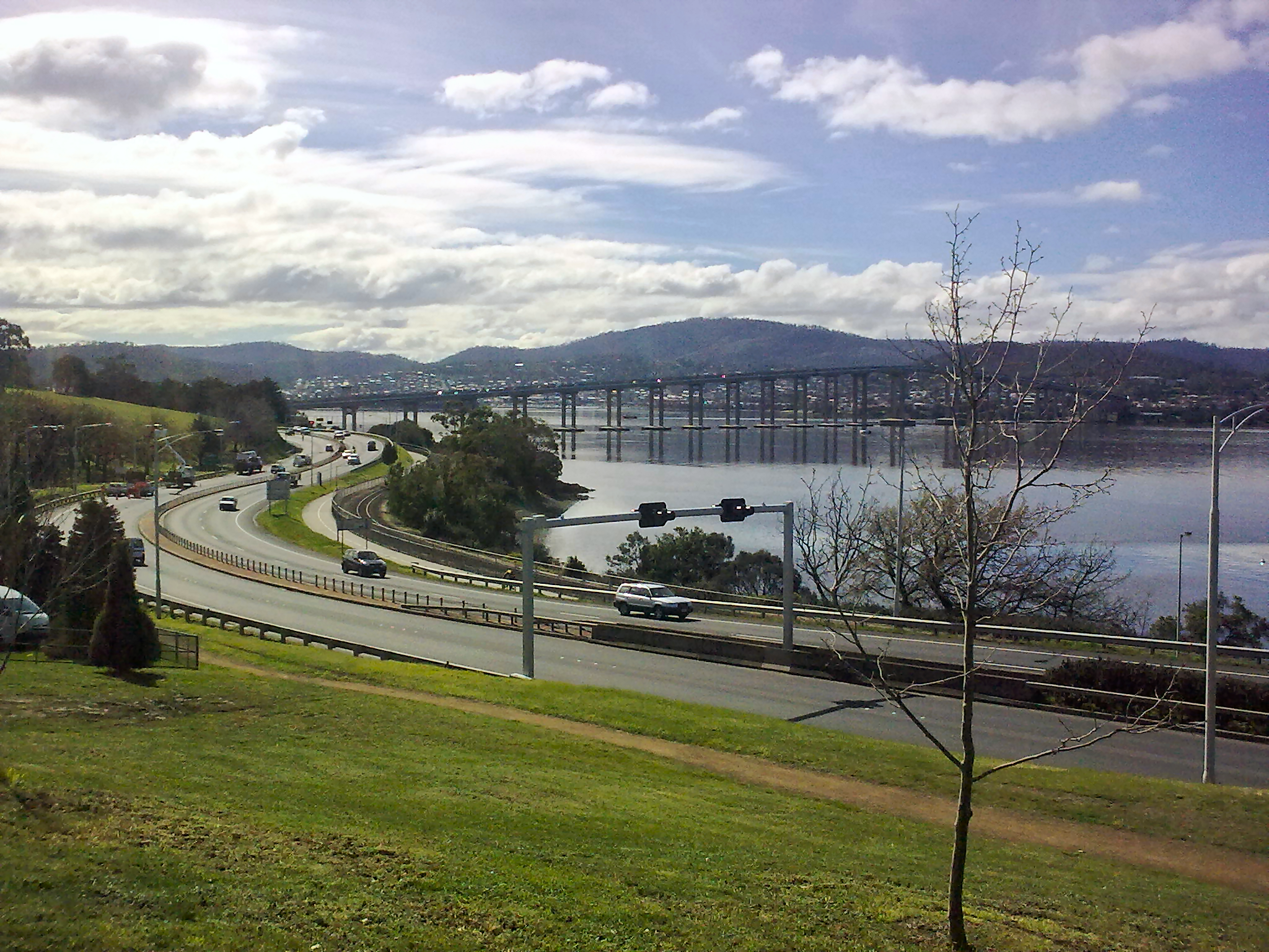 Picture of the Tasman Bridge with the western Tasman Highway approaches in the foreground.